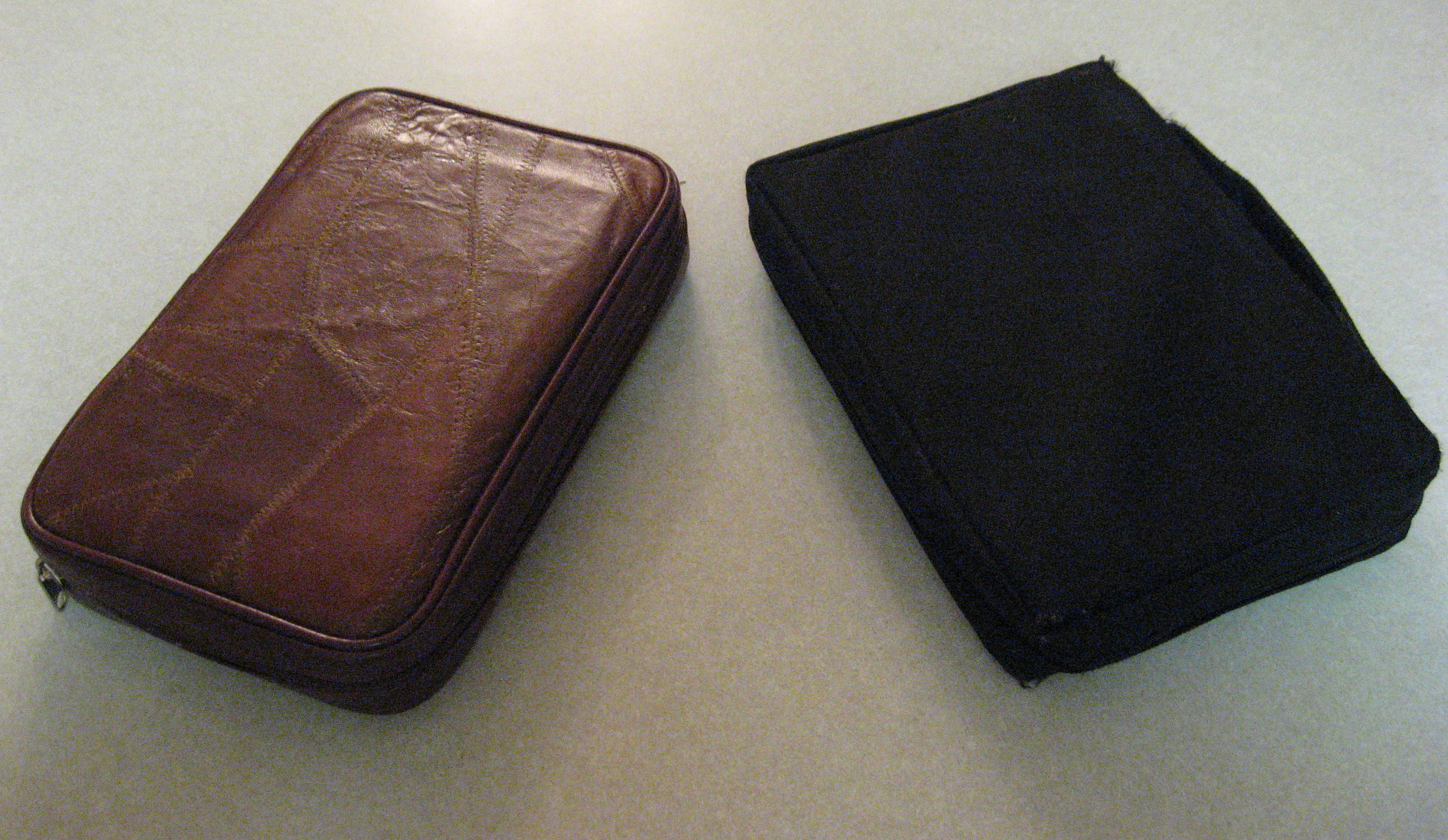 A pair of bible cases. The left case is made of brown leather, while the right case is made of a cheaper synthetic fabric.